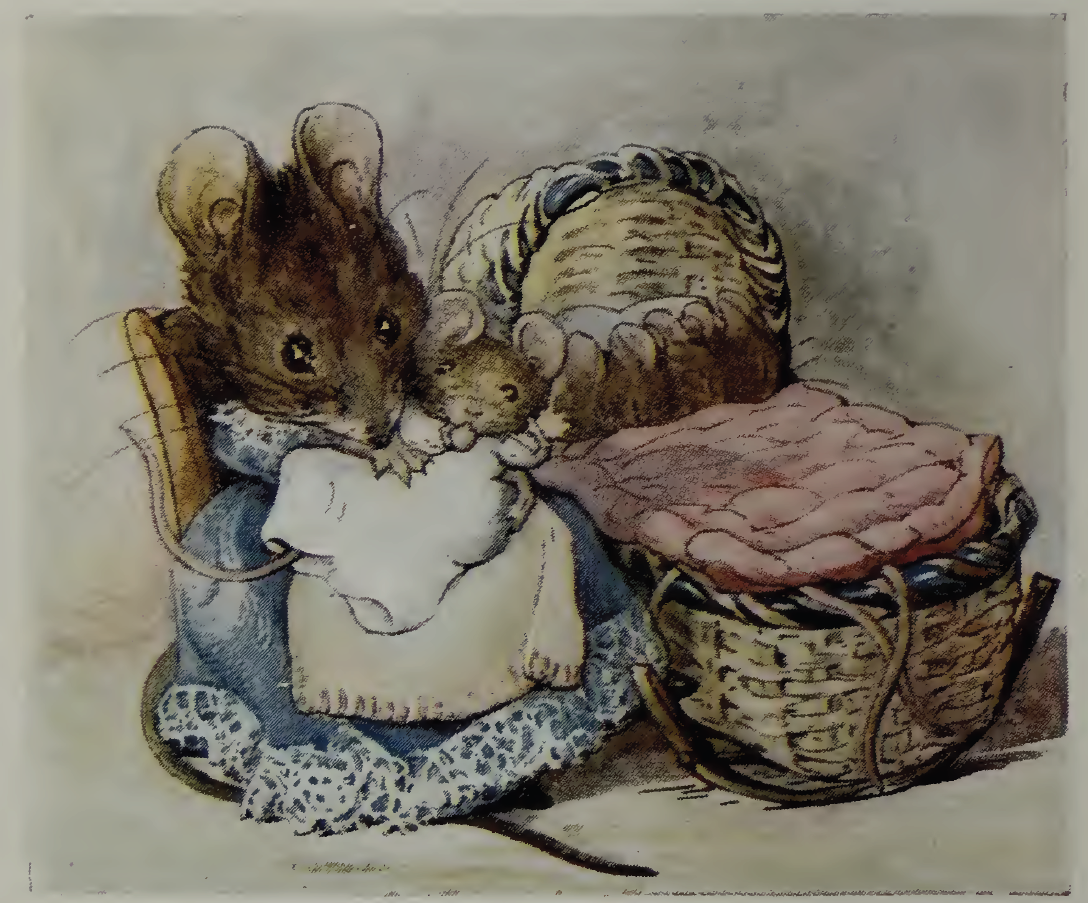 Hunca Munca with her babies, who sleep in the dolls' cradle, from The Tale of Two Bad Mice